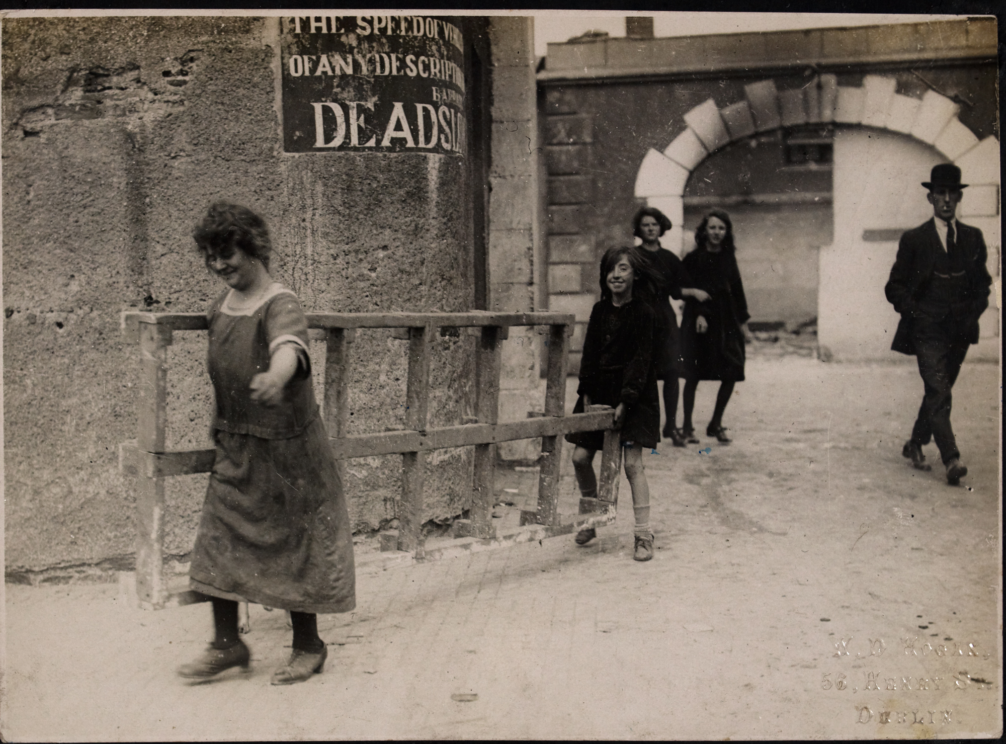 Thought it'd be good to end the year with a smiley (and you all know that's a technical term!) photo. These happy ladies are salvaging wood from the military barracks in Cork after it had been destroyed by fire... Photographer: W.D. Hogan Date: 1920s? NLI Ref.: HOGW 140